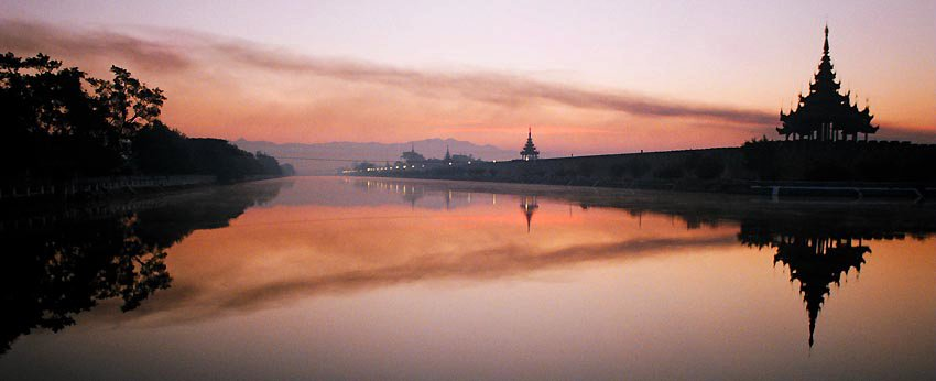 Mandalay.Myanmar